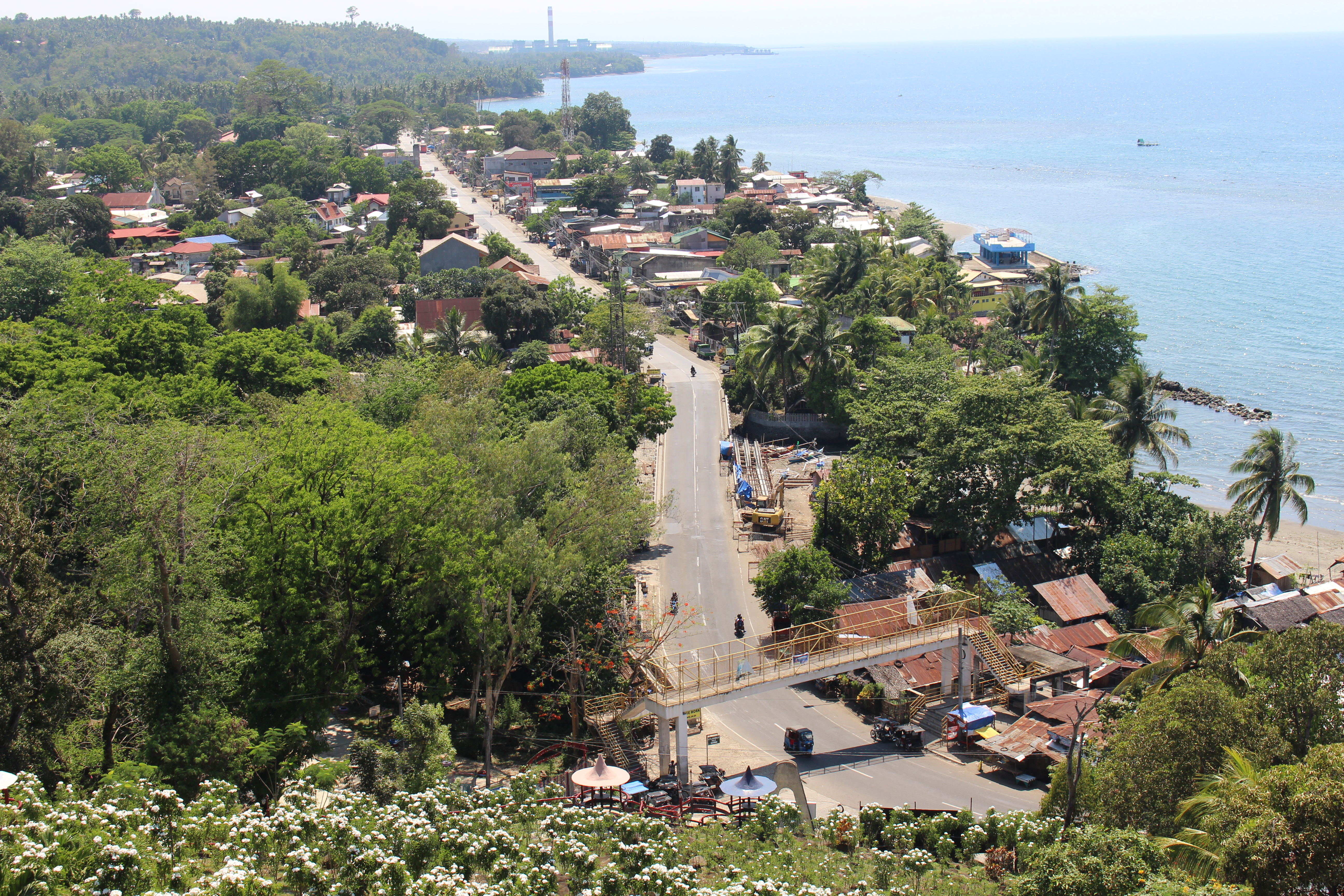 The bird's eye view of National Route 9 at Iligan City. The Kauswagan Power Plant is also seen at the background.